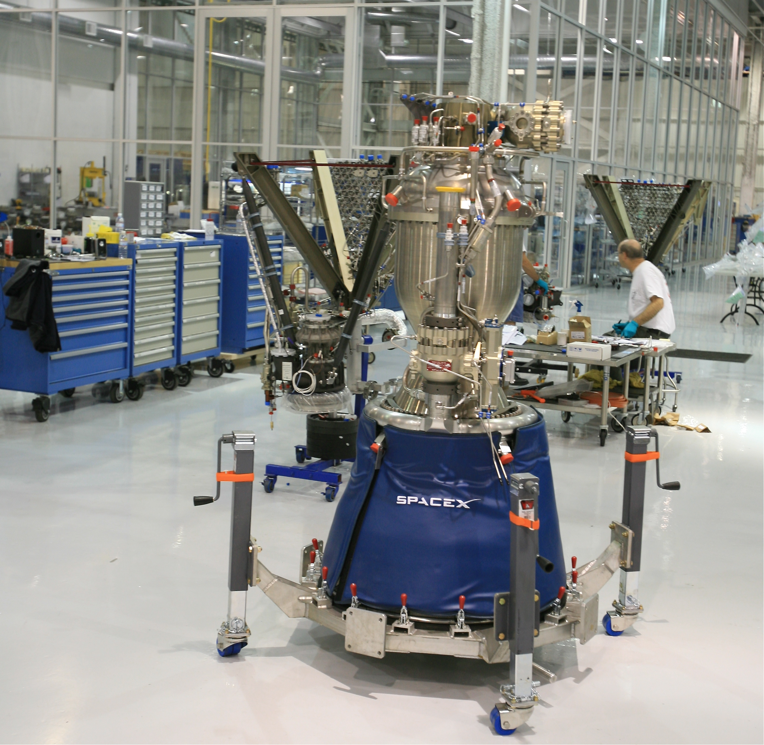 One of nine used in the Falcon 9 booster.